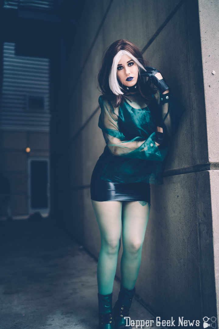 A cosplayer portraying Rogue from X-Men at Anime Expo 2016 in Los Angeles, California.